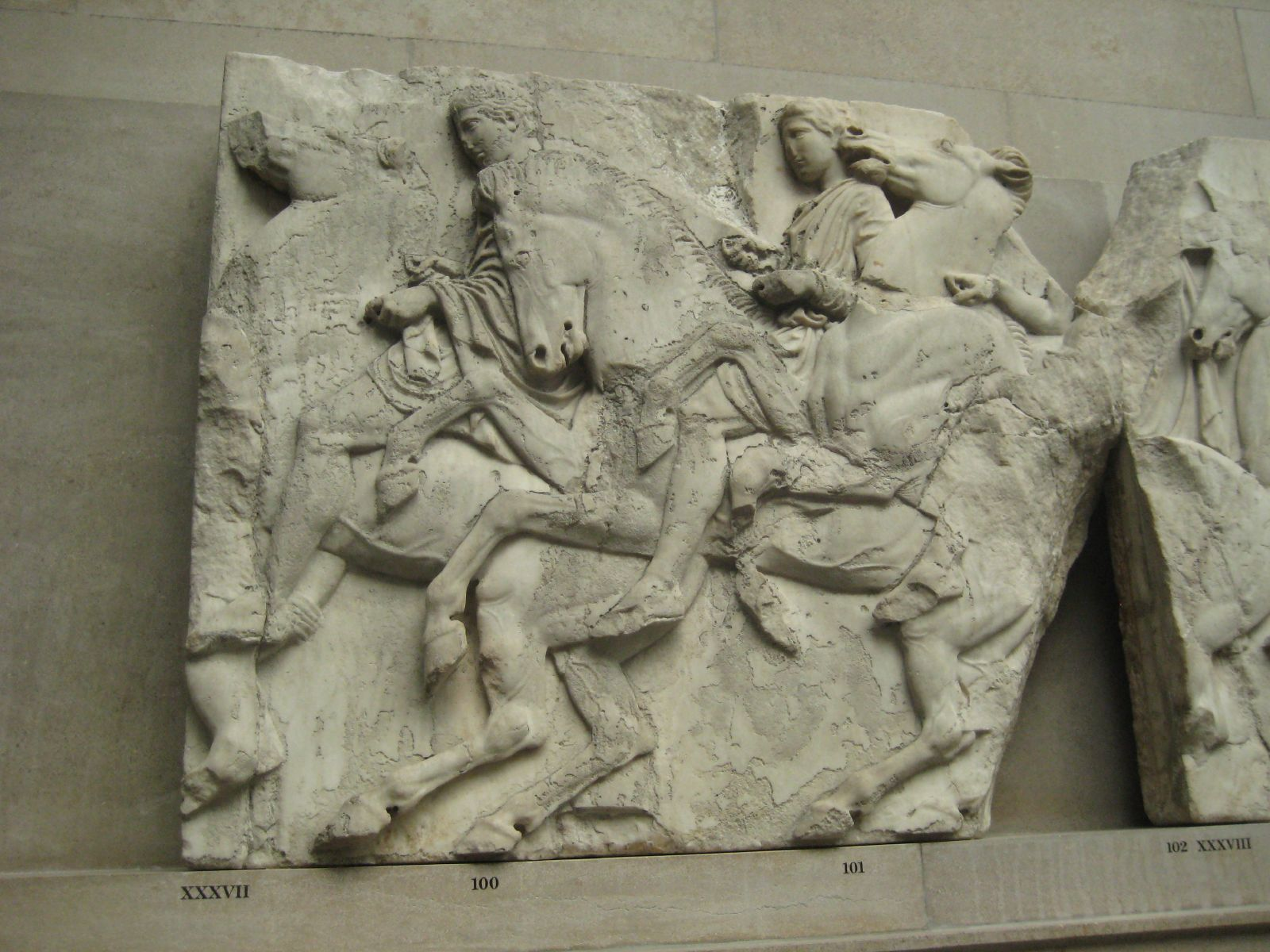 Cavalcade. Elgin Marbles. Greek, from the Parthenon. 5th century BC.